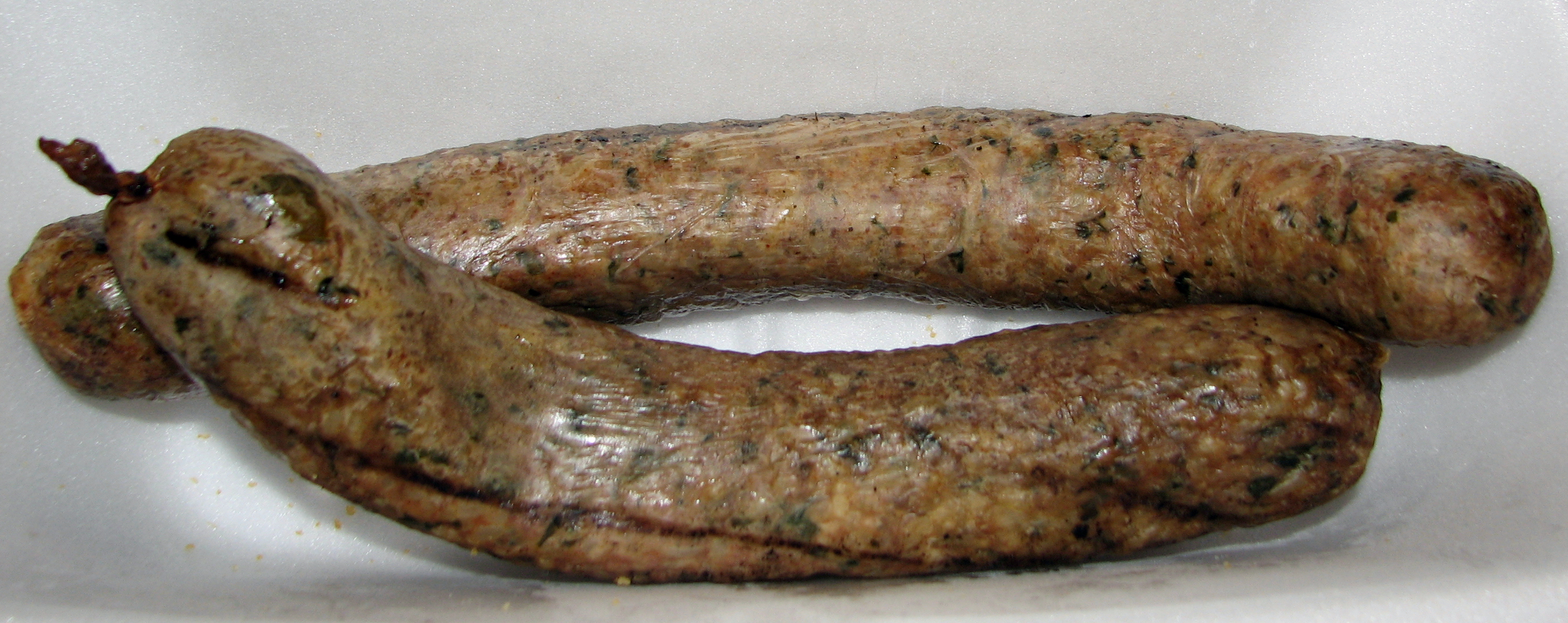 Smoked boudin blanc, a type of American Cajun sausage made from pork and rice that is stuffed in a sausage casing and smoked.